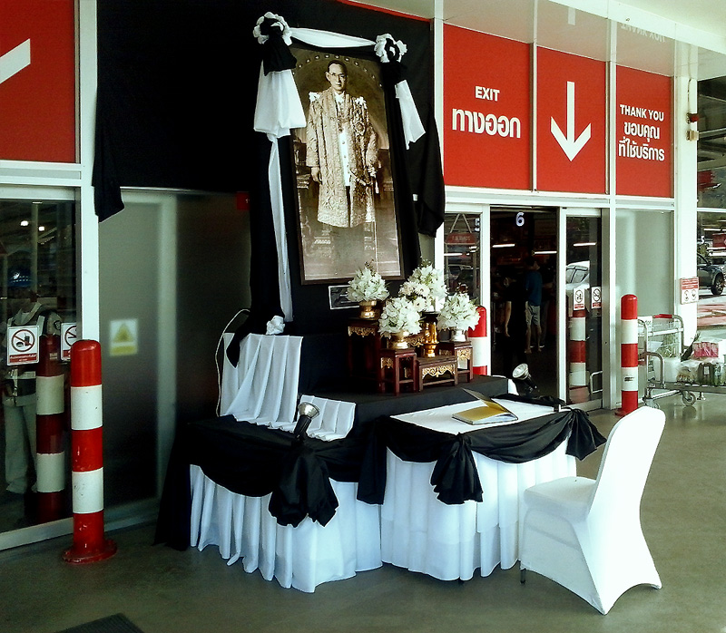 Mourning for King Bhumibol Adulyadej, condolence book in font of Makro in Bo Phut at Koh Samui.